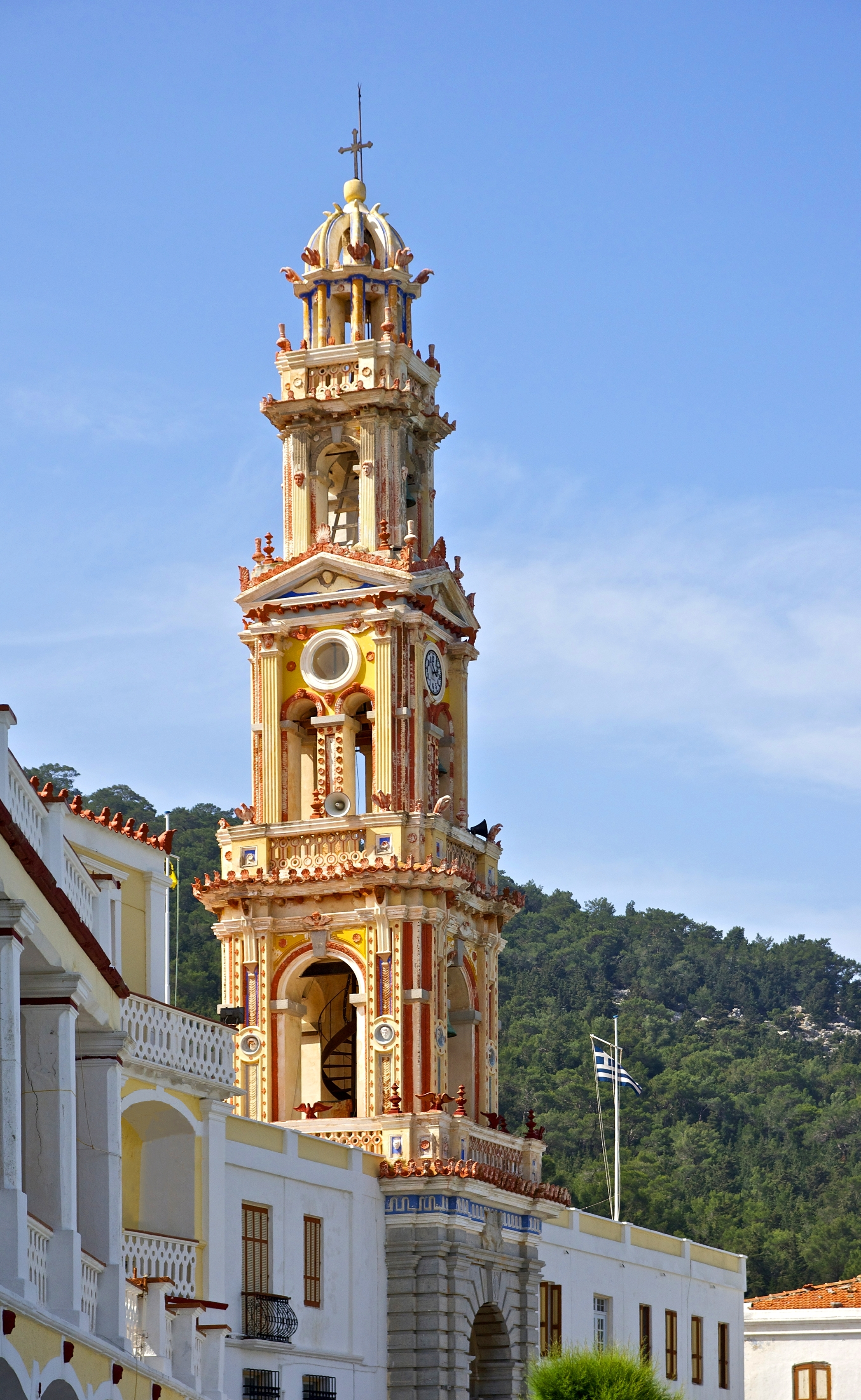 The bell tower of the greek orthodox monastery "Archangel Michaël" in Panormitis on the island of Symi, Greece.